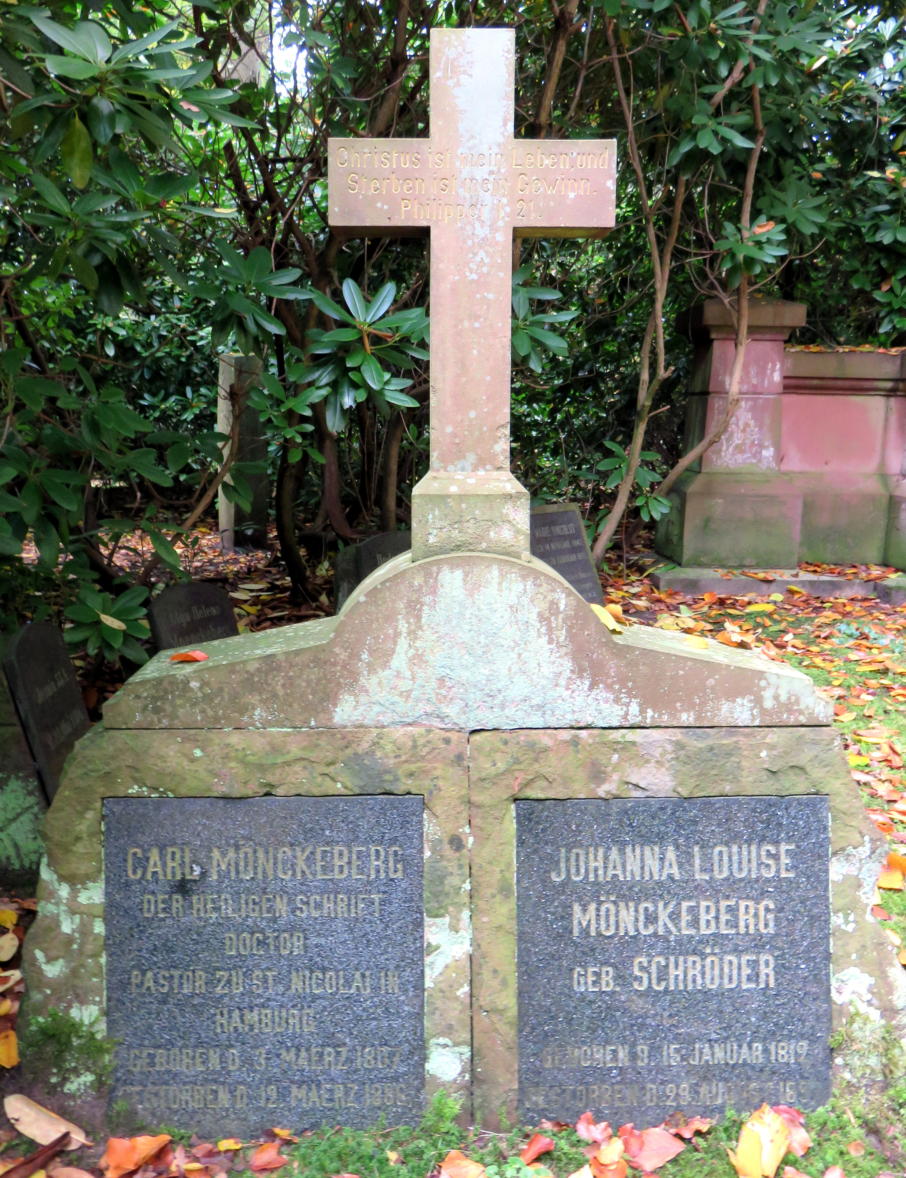 Gravestone for German theologian and historian Carl Mönckeberg (1807-1886) and his wife (parents of Hamburg mayor Johann Georg Mönckeberg), grave area of Mönckeberg family, Hamburg Cemetery Ohlsdorf.